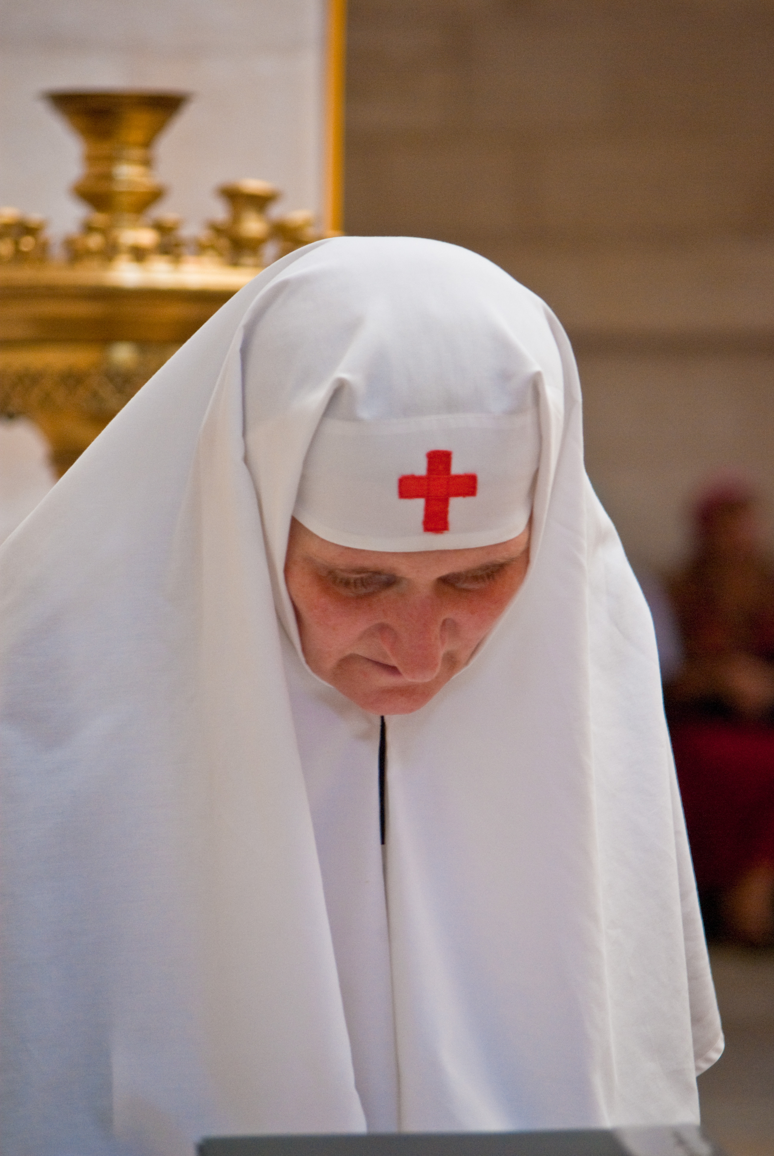 Russian Church, the Old City of Jerusalem